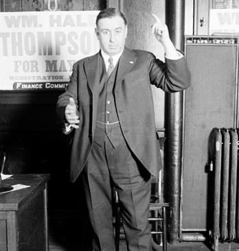 A full-length portrait of William Hale Thompson, striking a speaking pose, in a room in Chicago, Illinois. He is looking at the camera and holding up one finger. CREATED/PUBLISHED ca. 1915 Feb. 5 DN-0009693, Chicago Daily News negatives collection, Chicago Historical Society.